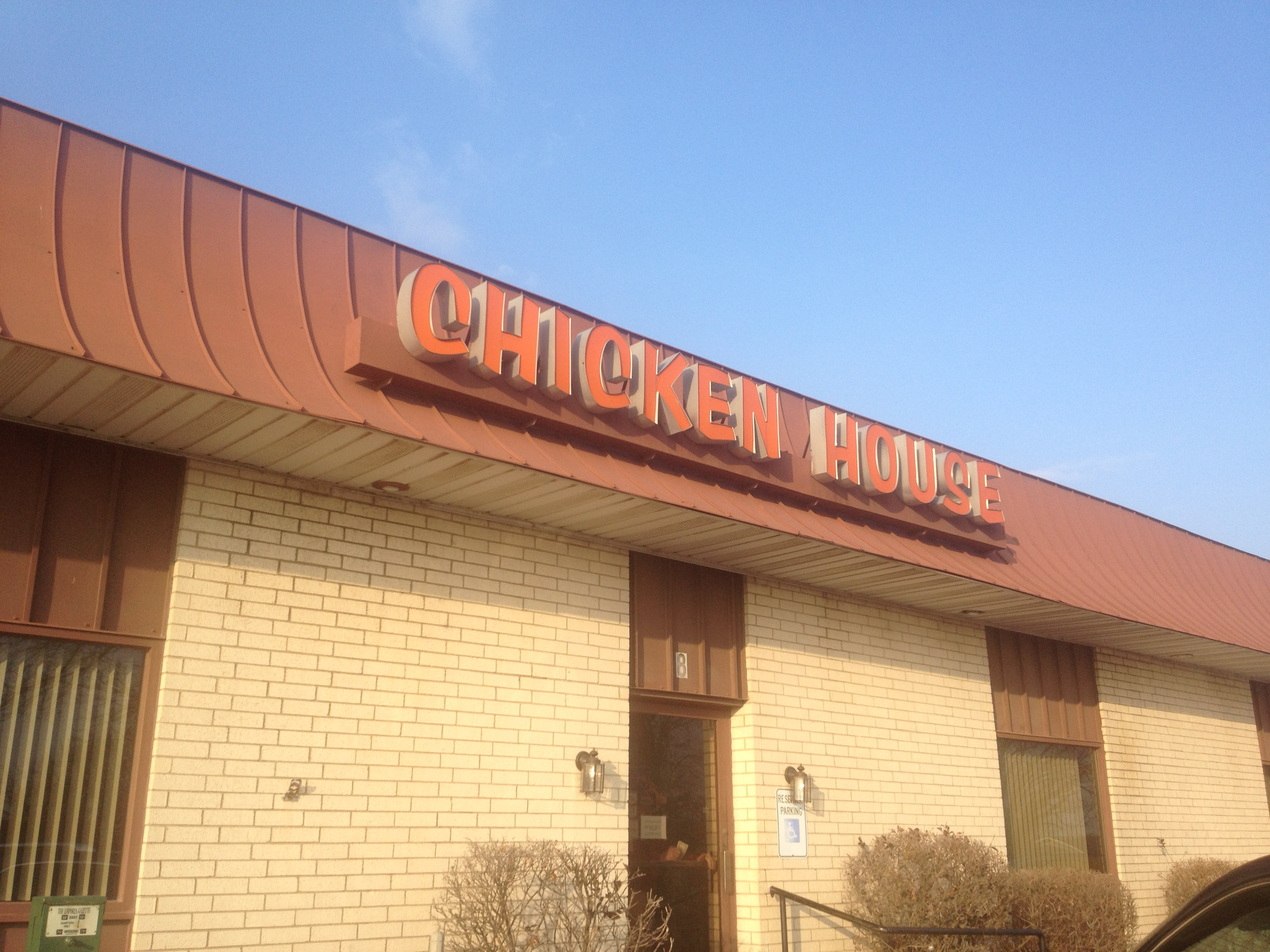 Image of the front entrance to the Olpe Chicken House in Olpe, Kansas